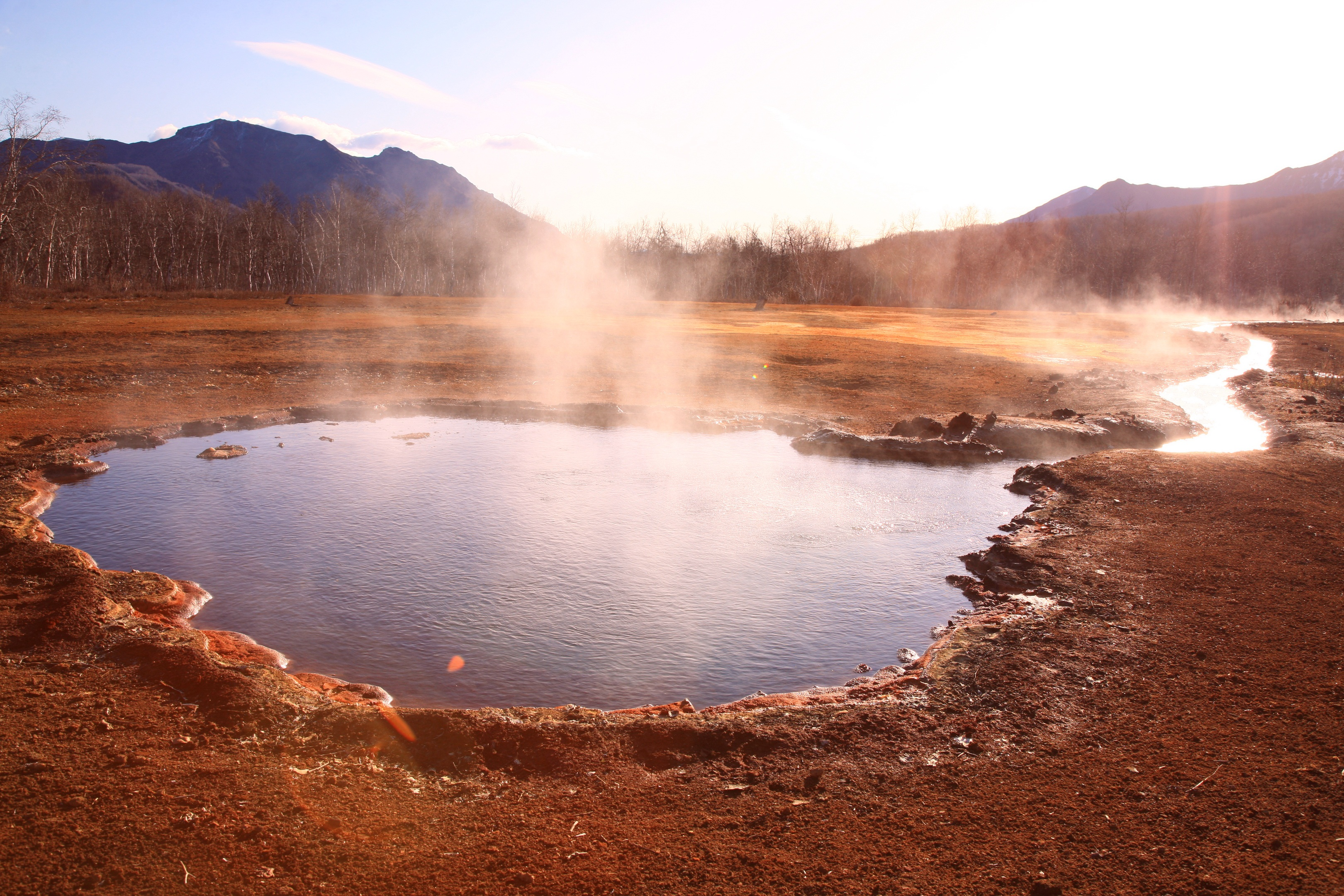 Hot Spring in Nalychevo Valley in Kamchatka in Russia.